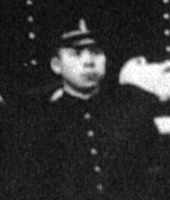 Minobe Sadakatsu is an Imperial Japanese Navy Rear Admiral